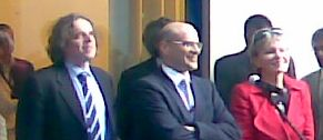 From left to right: Krzysztof Kilian, Jarosław Bauc, Bogusława Matuszewska, members of Board of Directors in Polkomtel